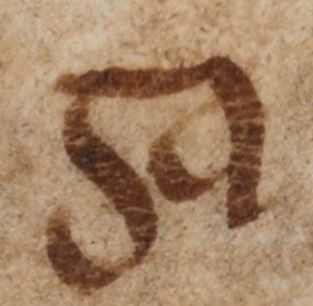 ga (go); from the King Alfred’s Old English Version of Augustine’s Soliloquies. (see transcript at the Website of the Faculty of Creative and Critical Studies, University of British Columbia)